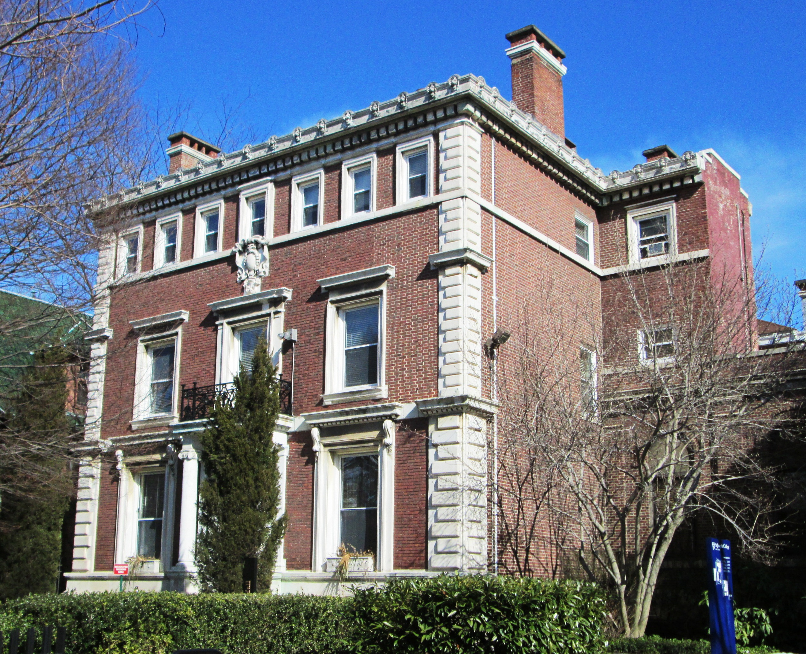 254 Clinton Avenue between Dekalb and Willoughby Avenues in the Clinton Hill neighborhood of Brooklyn, New York City was built in 1901 as the residence of George DuPont Pratt, a son of Charles Pratt, and was designed by Babb, Cook & Willard, combining Italian Renaissance and America Colonial forms. It was built around another dwelling on the site. Pratt sold the house in 1917, and the Sisters of St. Joseph bought it in 1918. It is now Burns Hall of St. Joseph College, and includes a formal dining room and parlors, a chapel, the student lounge and kitchen and laboratories for the Biology Department. It is located within the Clinton Hill Historic District. (Sources: "Clinton Hill Historic District Designation Report" and "Brooklyn:Facilities" on the St. Joseph's College website)